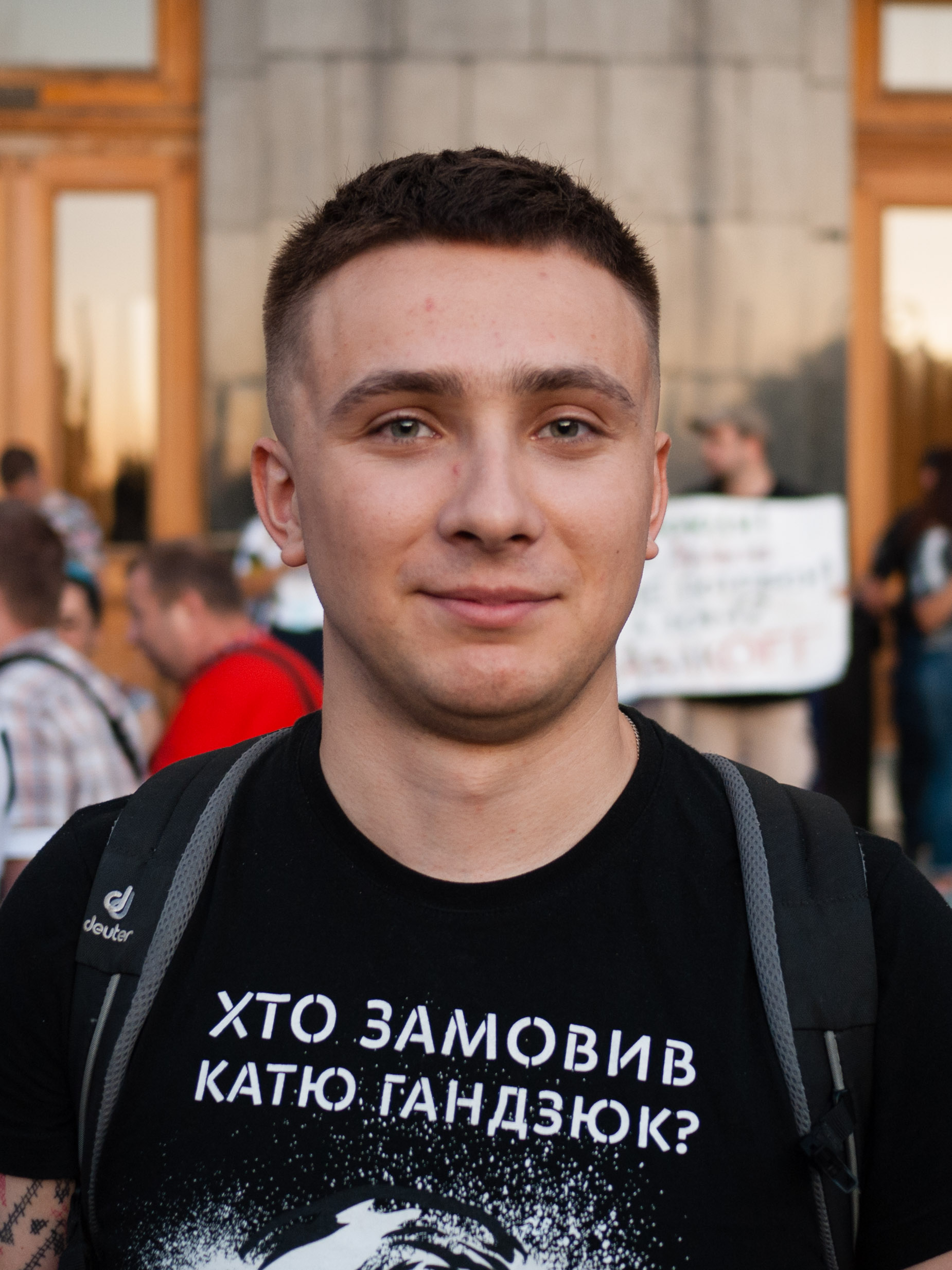 Serhii Sternenko, activist and blogger, at the rally against minister Arsen Avakov near President Office, Kyiv, Bankova Str.